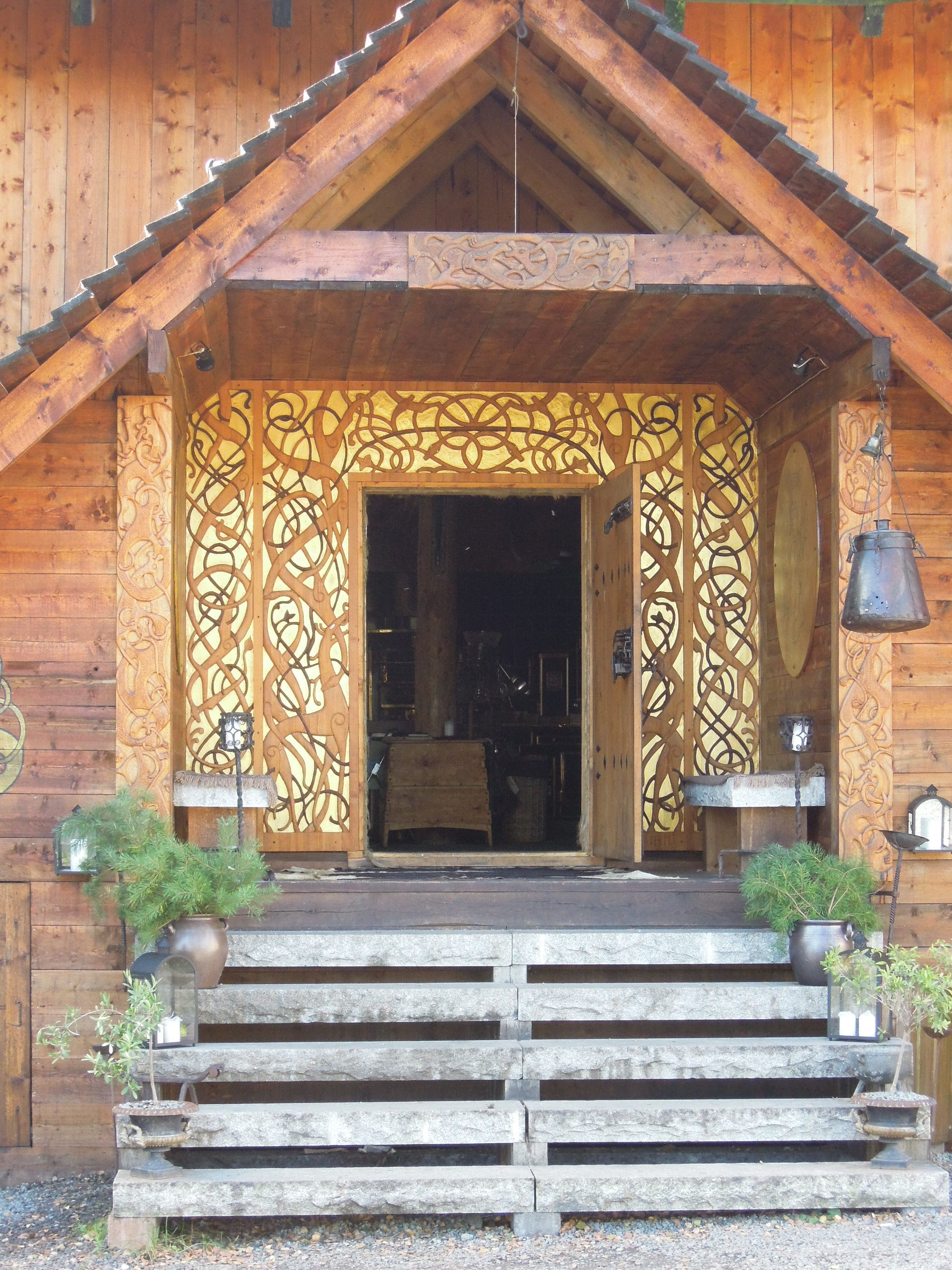 Longhouse of Viking type named Gudagott, used as a restaurant for booked parties of up to 150 persons. Cook-teaching is another alternative use. The building is part of the Viking village Frösåkers brygga outside Västerås, Sweden.